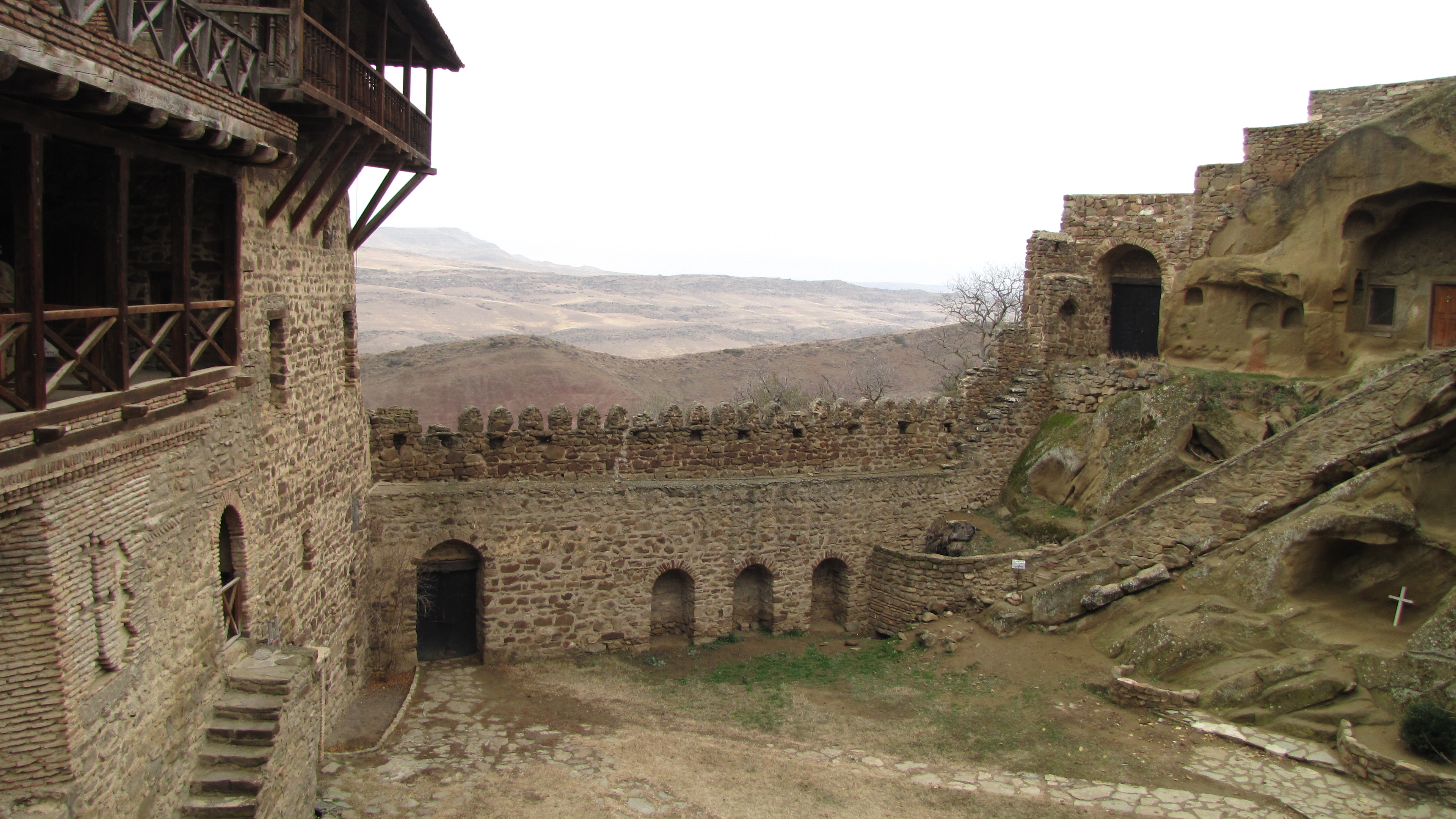 David Gareja monastery complex